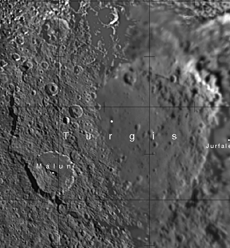 The 580km Turgis crater on Saturn's moon Iapetus. (This image is cropped from the source.)